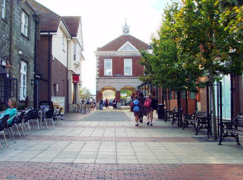 The Blighs shopping development in the centre of Sevenoaks, Kent, UK.